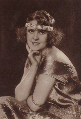 Actress Liane Haid, by Foto Binder